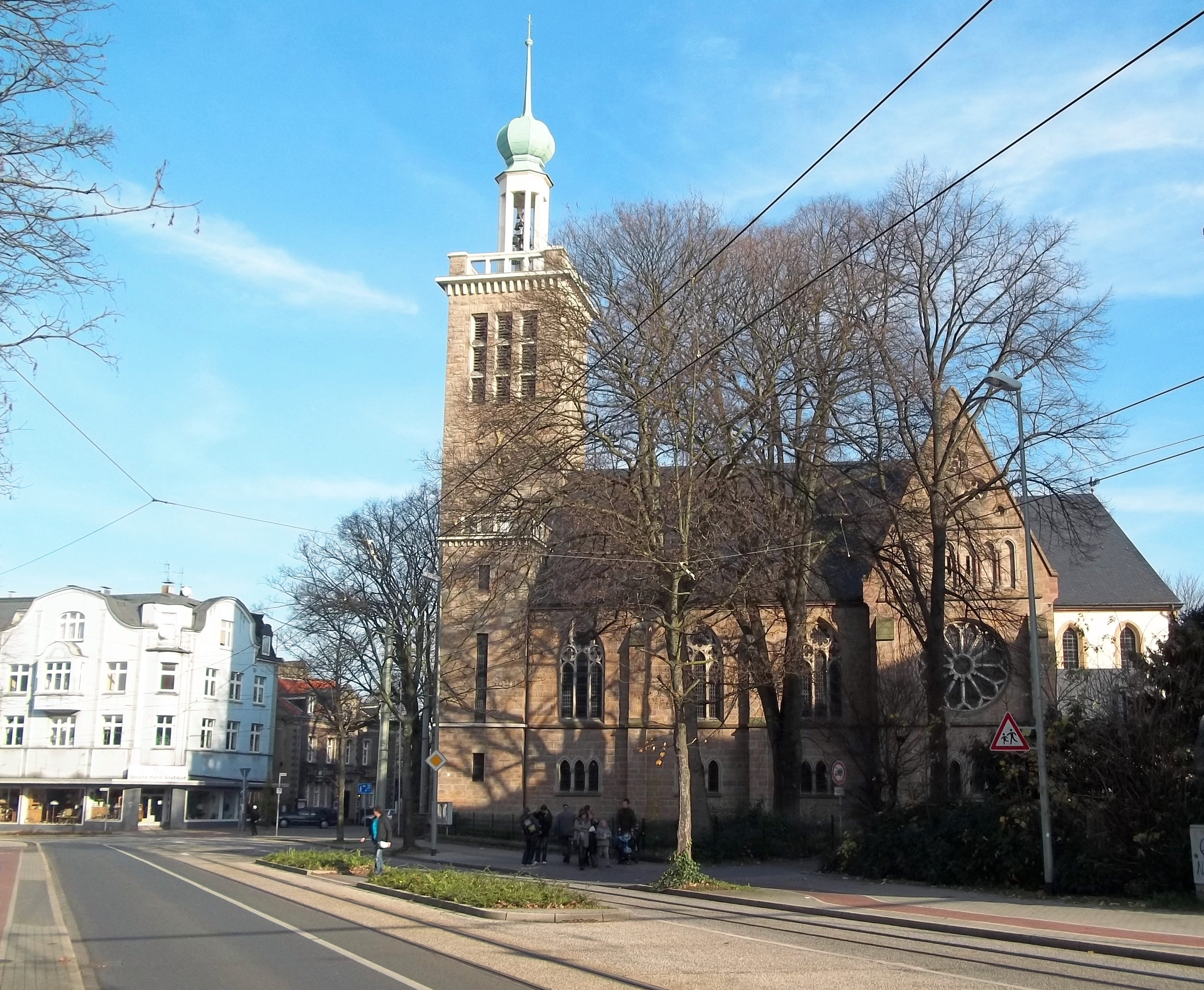 evangelic church in Eickel